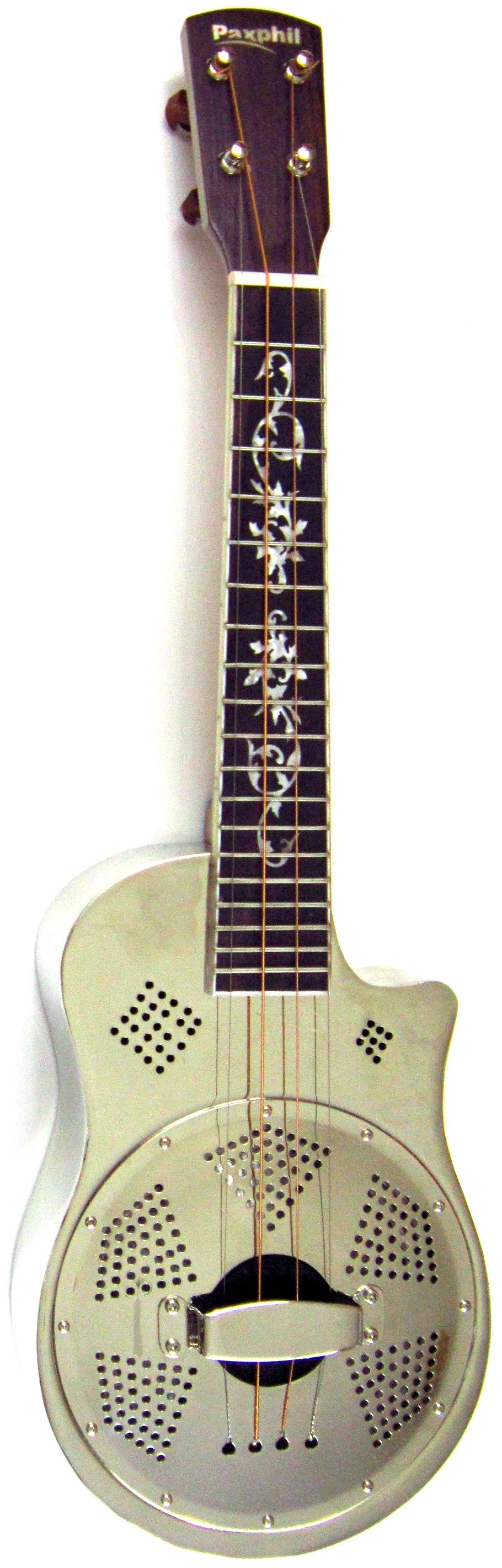 Paxphil steel strung Concert scale Resonator Ukulele